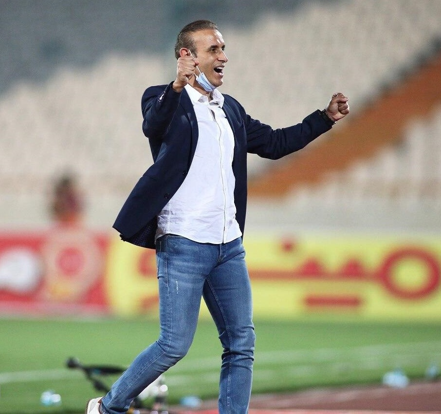 Persepolis FC v Foolad FC, 18 July 2020 Azadi Stadium, Tehran.